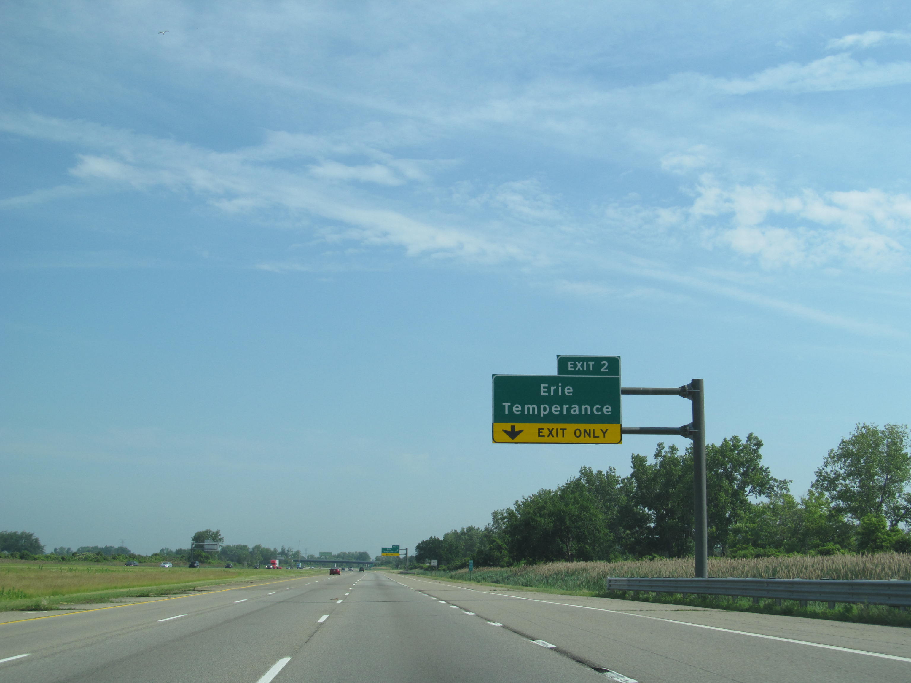 Interstate 75 in Michigan at exit 2 in Monroe County